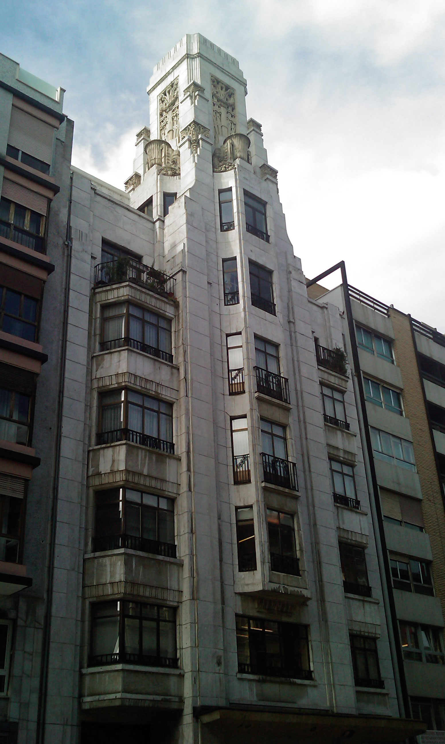 Building known as "Casa Blanca" (White House) in Oviedo, Asturias, Spain